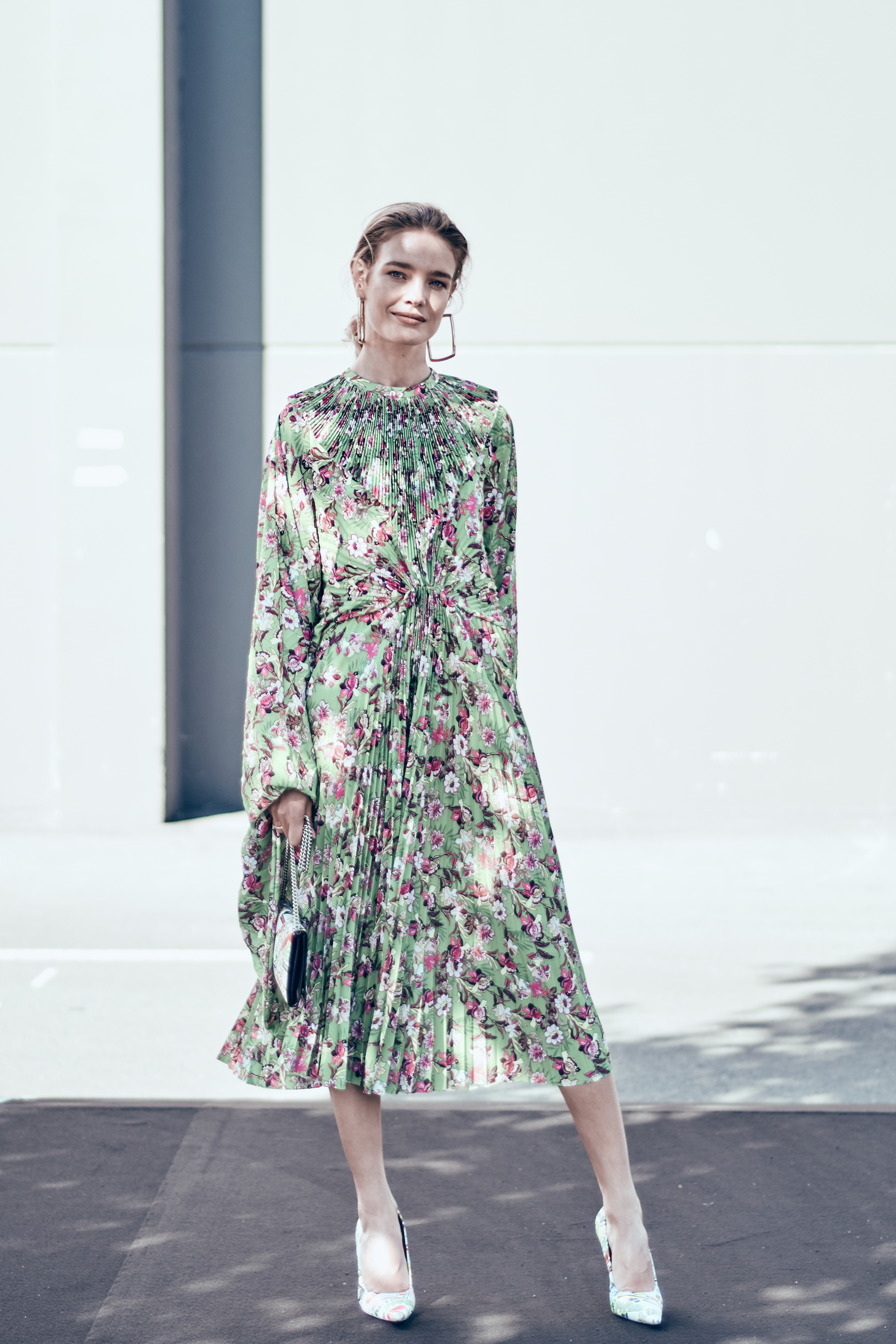 Natalia Vodianova at Paris Fashion Week RTW Spring/Summer 2019